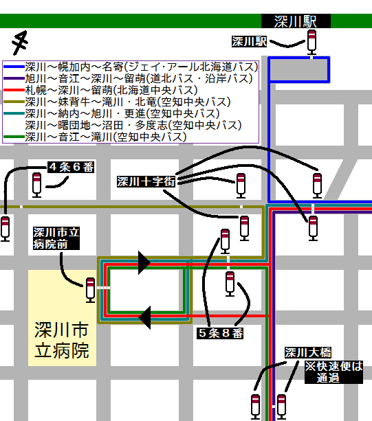 Bus stops in central Fukagawa city (Hokkaido, Japan), as of April 1, 2008